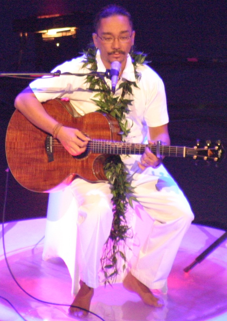 Keali'i Reichel. Ninth Annual Kukahi Concert, February 12, 2005. Maui Arts & Cultural Center